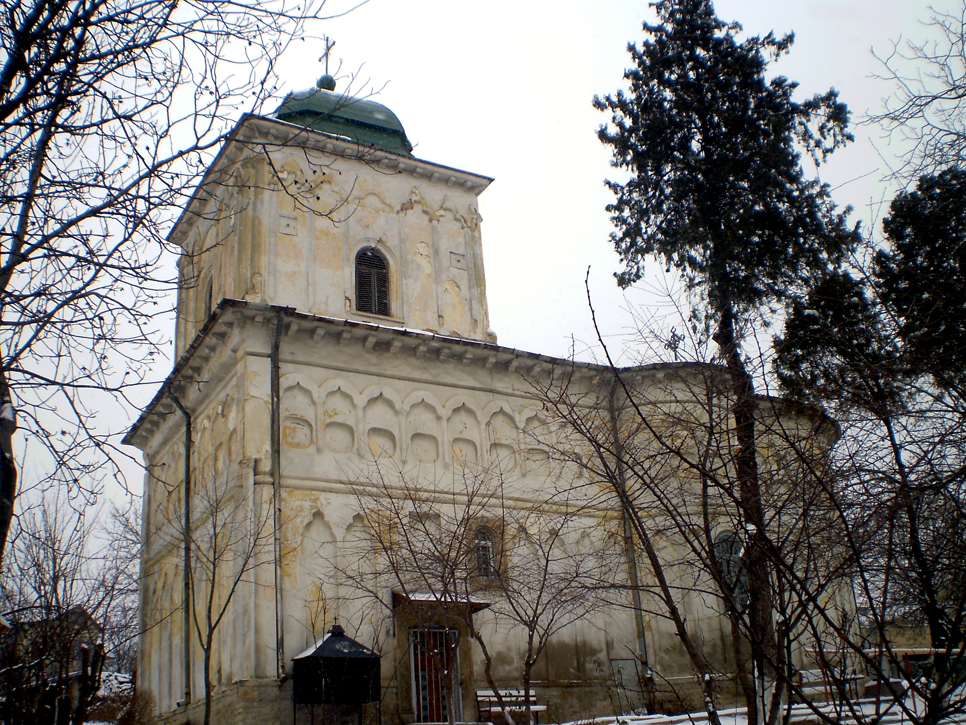 Saints Atanasie and Chiril Church , 1638 , Iaşi , RomaniaRomână: Biserica Sfinţii Atanasie şi Chiril , 1638 , Iaşi , România